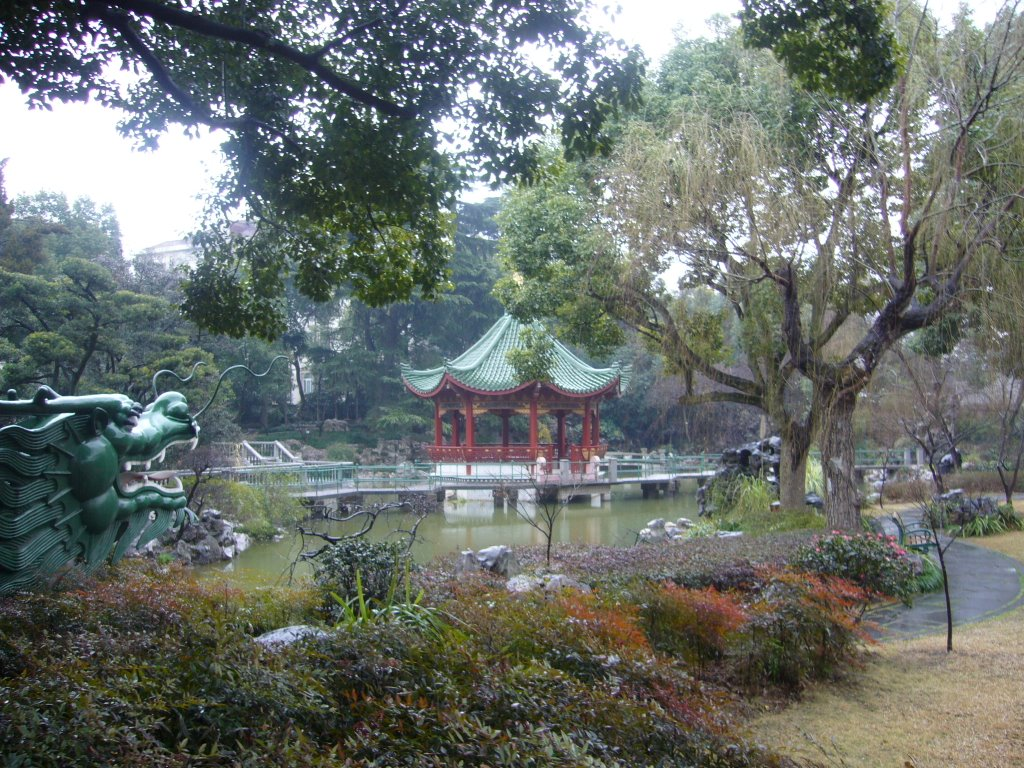 Ding Xiang Garden, located on Huashan Rd., Shanghai